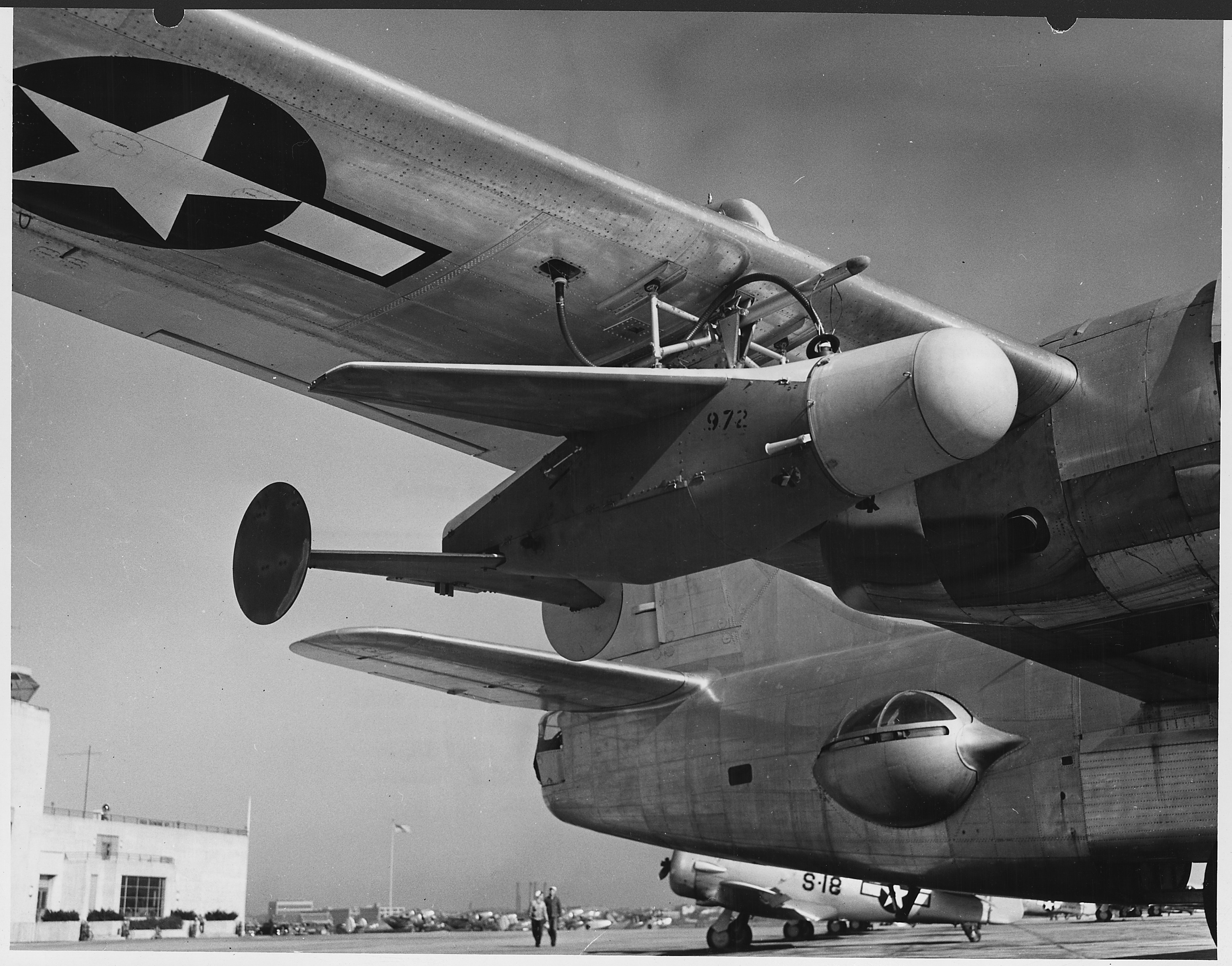 Scope and content: These document development of the BAT, and include electronic and radar equipment, housing, and the complete guided bomb mounted beneath the wing of a B-17.